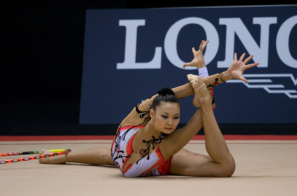 VII Final World Cup in Benidorm (SPAIN)